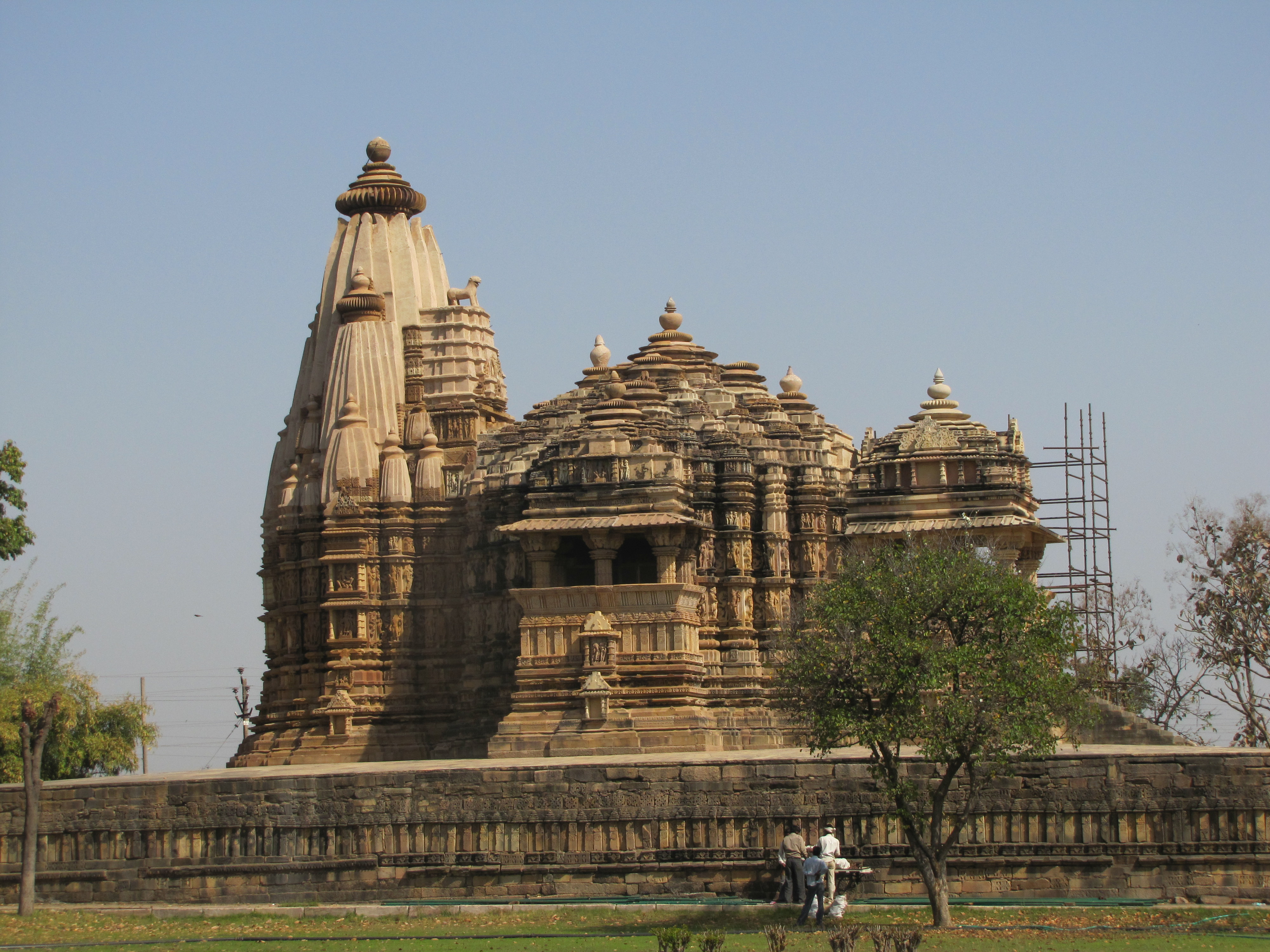 Khajuraho India, Chitragupta Temple